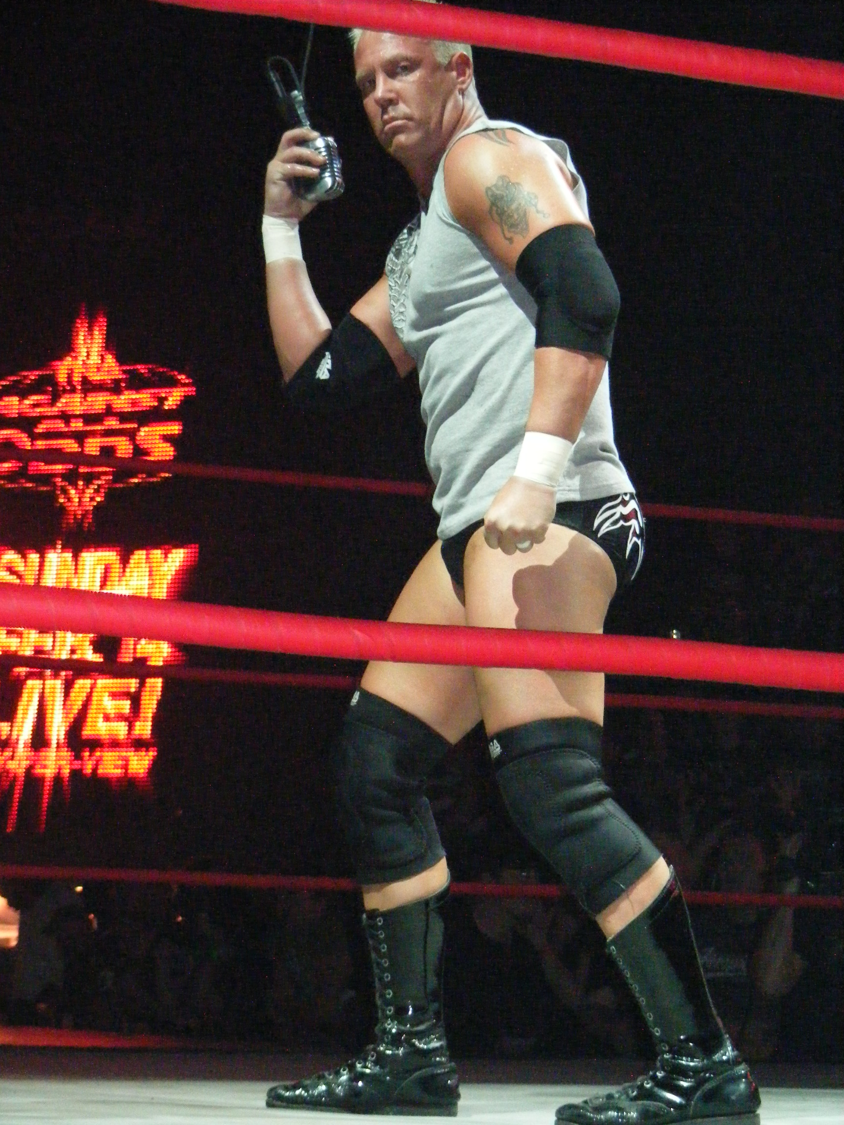 Ken Anderson cuts a promo before his match against Jeff Jarrett at a TNA Impact Taping.